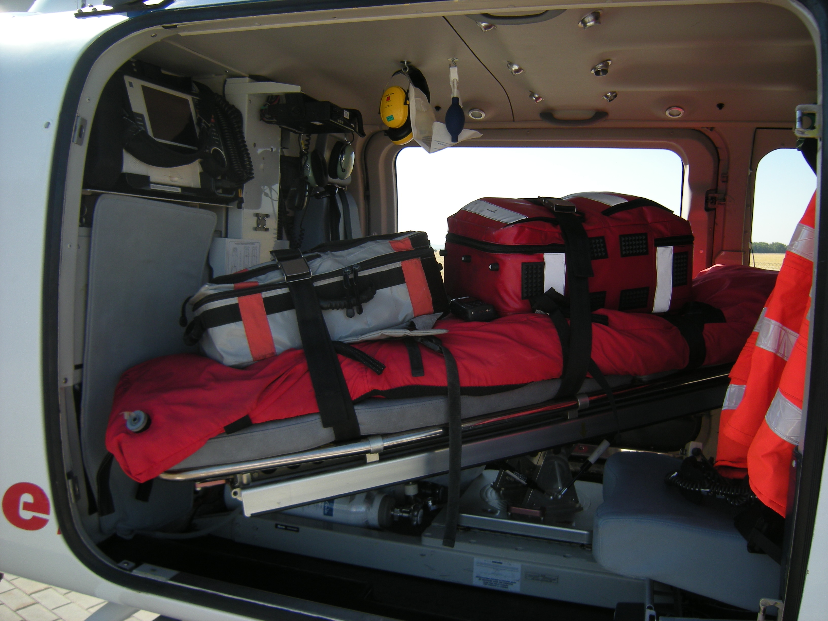 Ambulance equipment of rescue helicopter Bell 427 (OK-AHE) in the Czech Republic